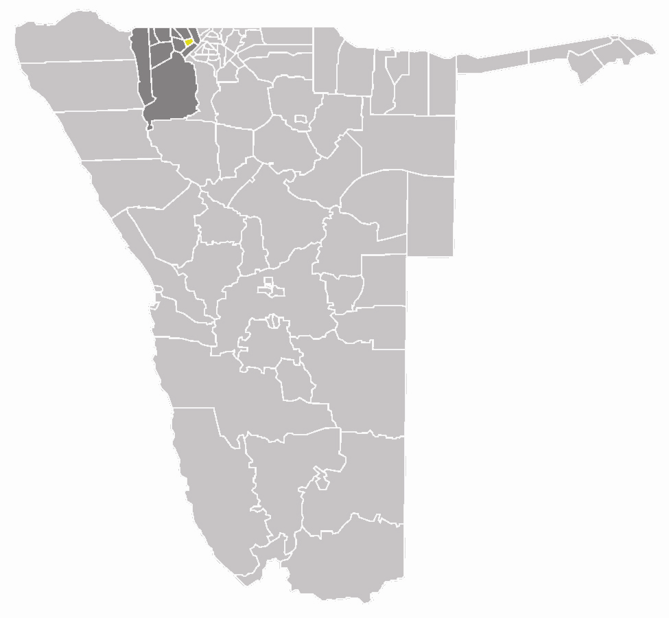 map of the Oshikuku constituency within the Omusati region, Namibia